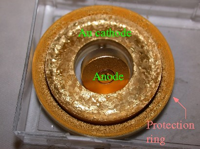 A photo of a gold sputter target showing the three principal parts: the cathode which is made of the material to be deposited; the anode that serves as a counterelectrode for the sputtering process and which is typically made of steel; and the protection ring, which prevents the surrounding hearth from being sputtered. The pictured target is in a ring geometry that is used with precious metals. A disk geometry is more common for less expensive materials.